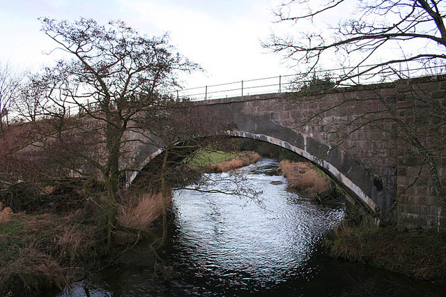 Railway bridge over the Urie at Milton of Inveramsay.